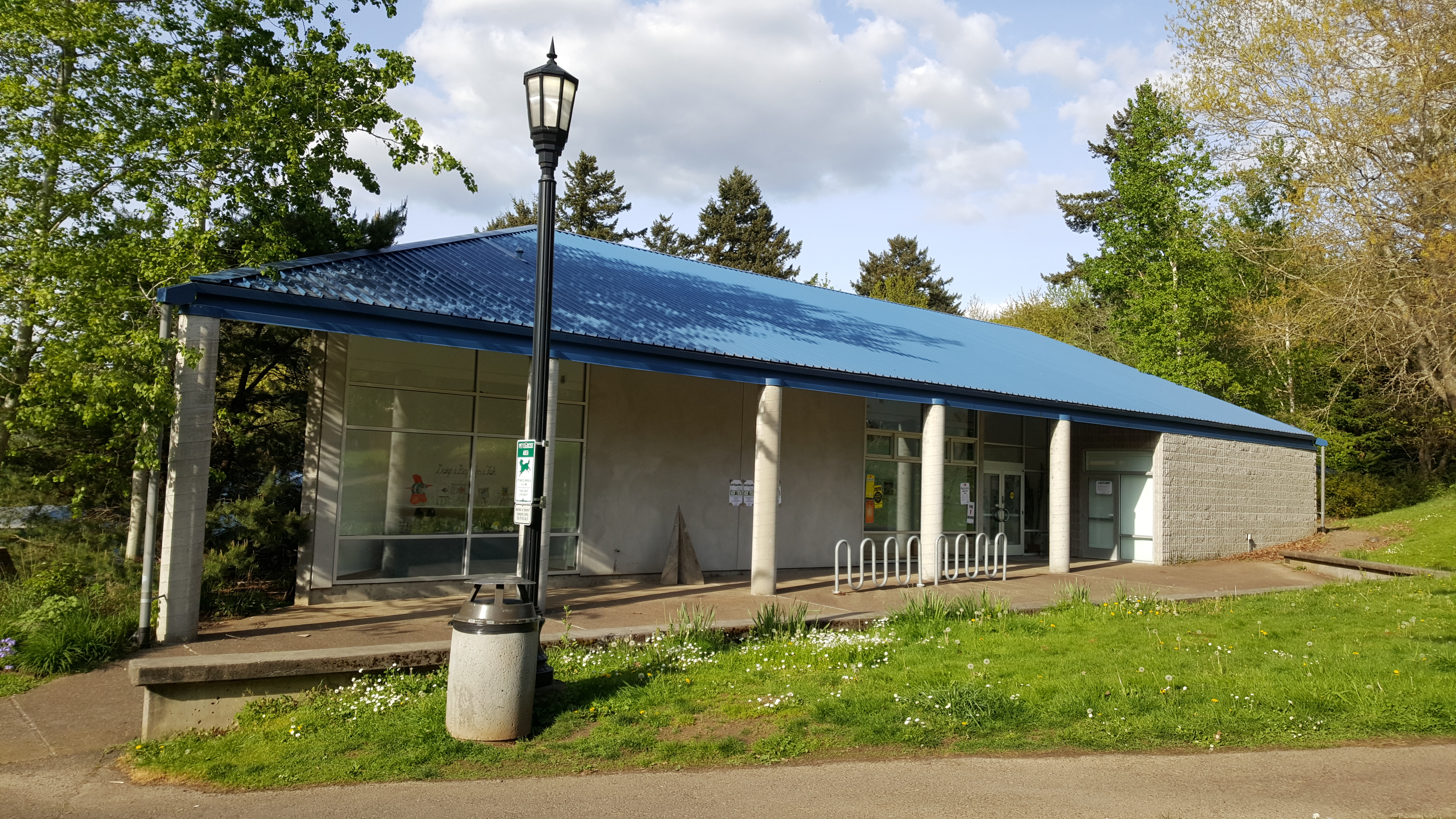 Studio Art Building, Reed College, Portland, Oregon, April 2016